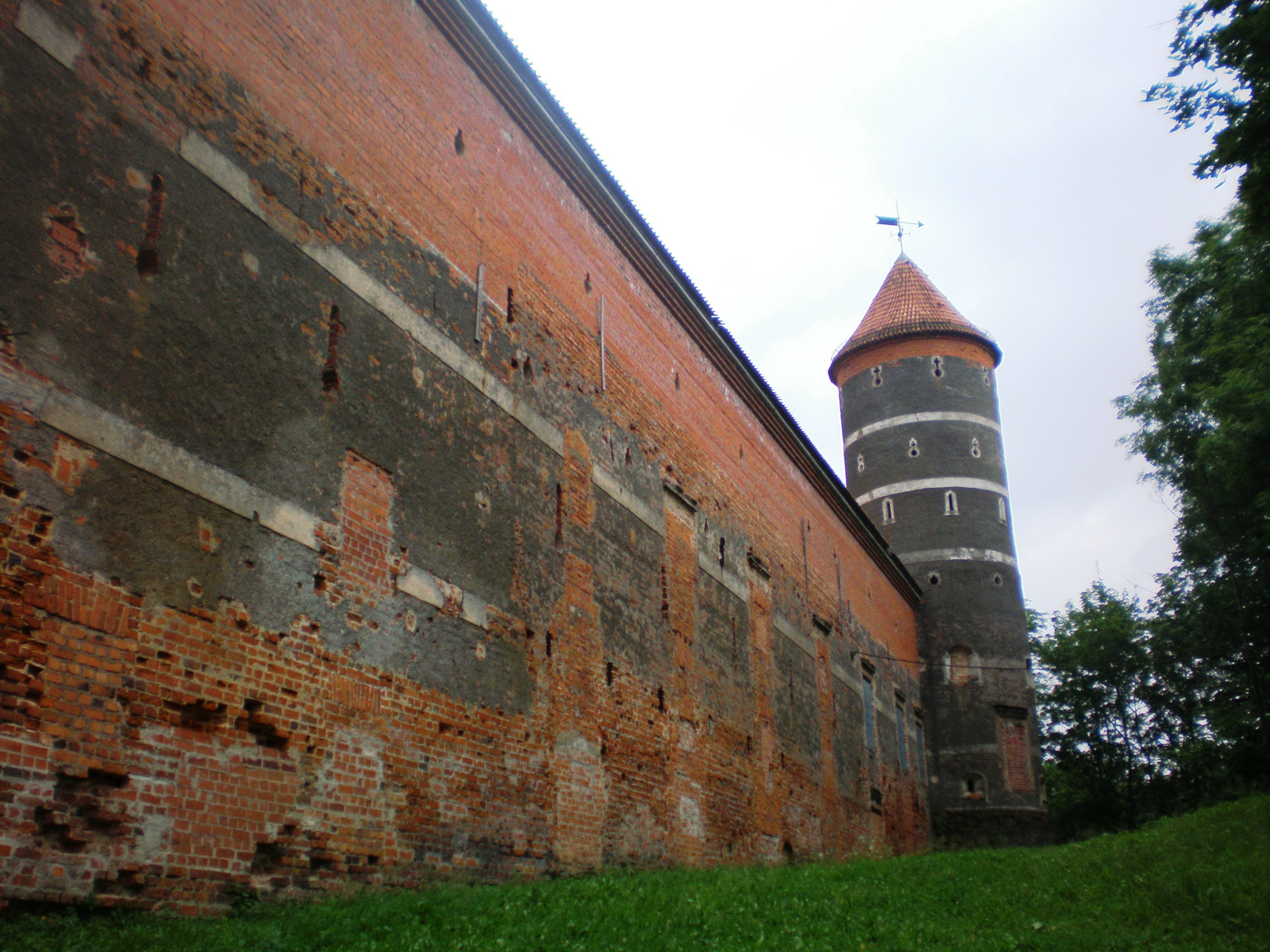 Panemunė castle in Vitėnai or Pilis I